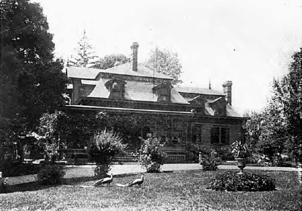 "Brook Side Pines," the John H. Riley House. Previously the home of David P. Patterson. House and grounds noted as the show-place of Hillsdale, New Jersey during late 19th century.